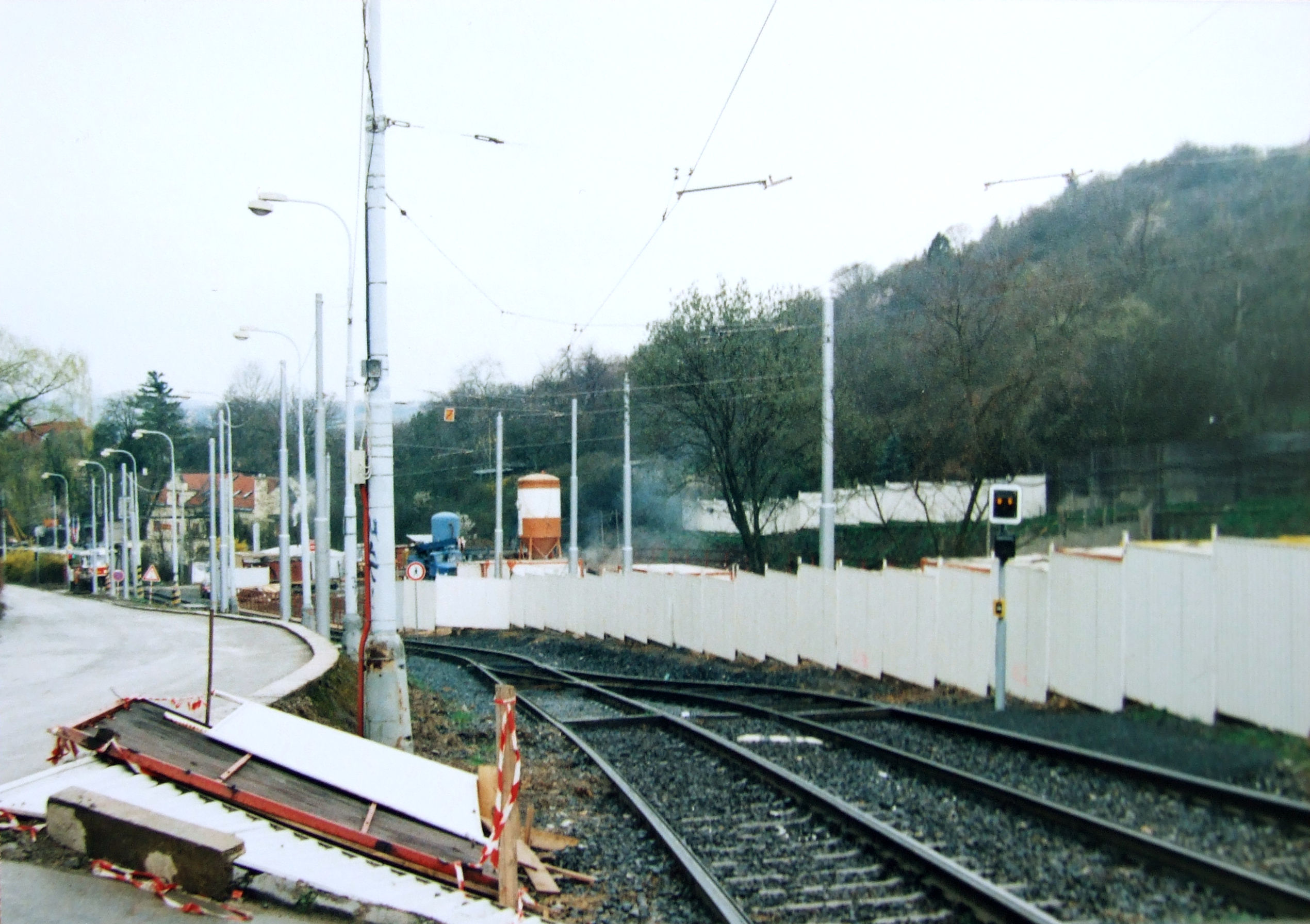 Temporary single tram track in Prague, moved and changed because of metro construction underneath